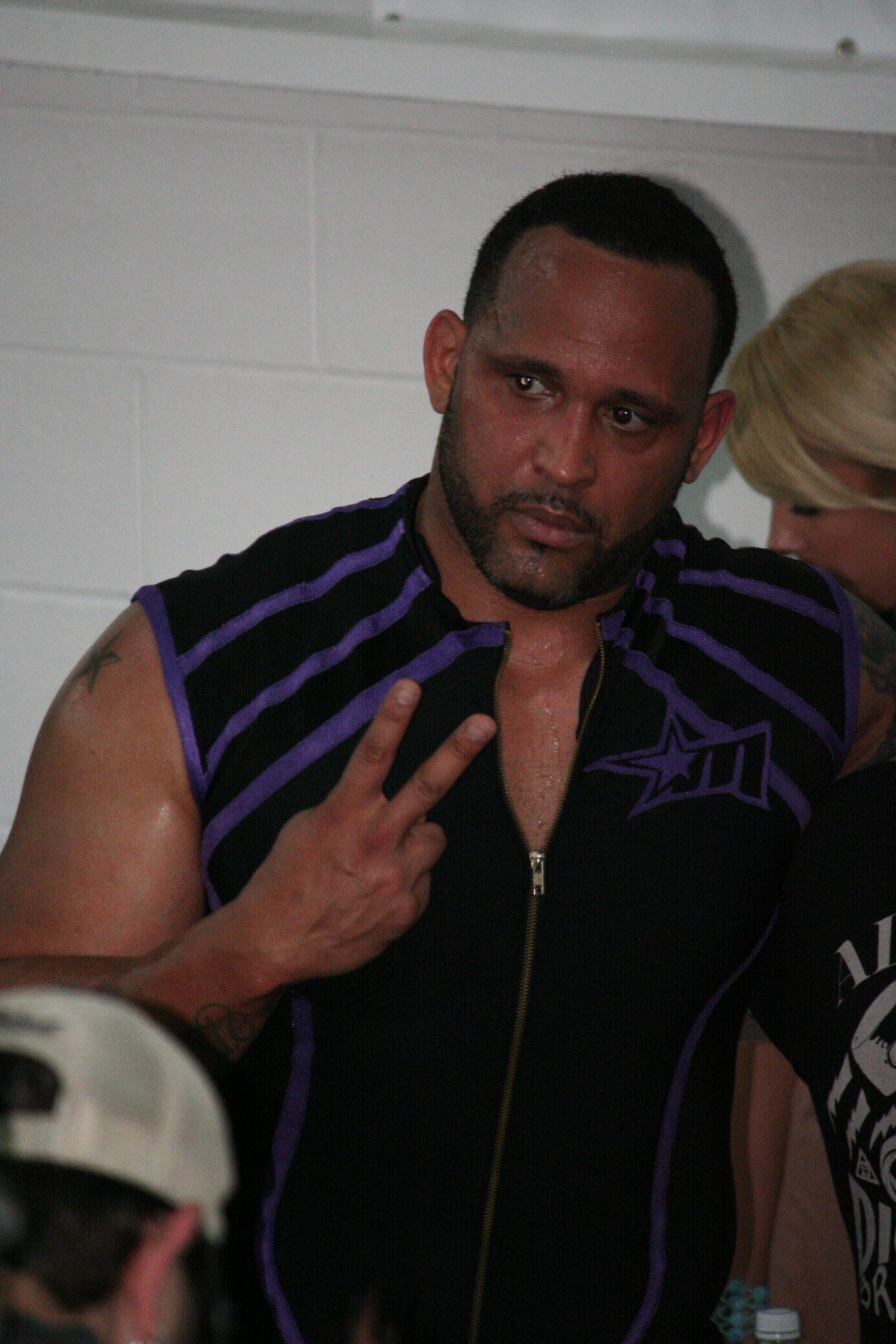 Professional wrestler MVP in May 2012.